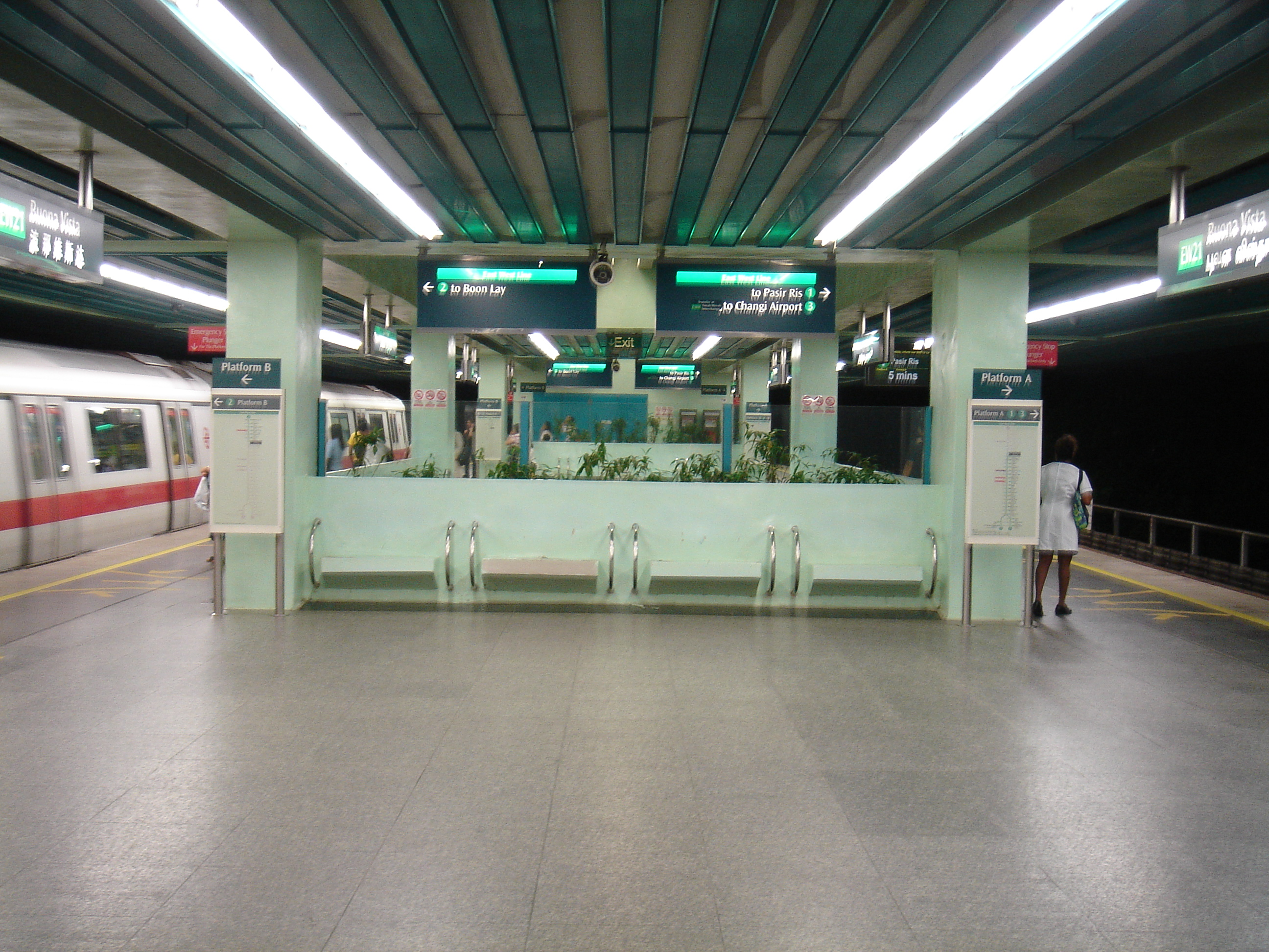 Buona Vista Station of the East-West Line.